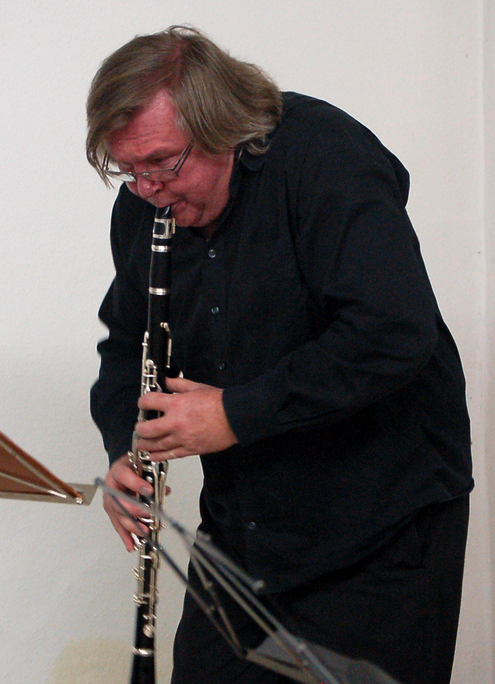 Theo Jörgensmann at "Kulturknastfenster" Brüel, Germany 2009